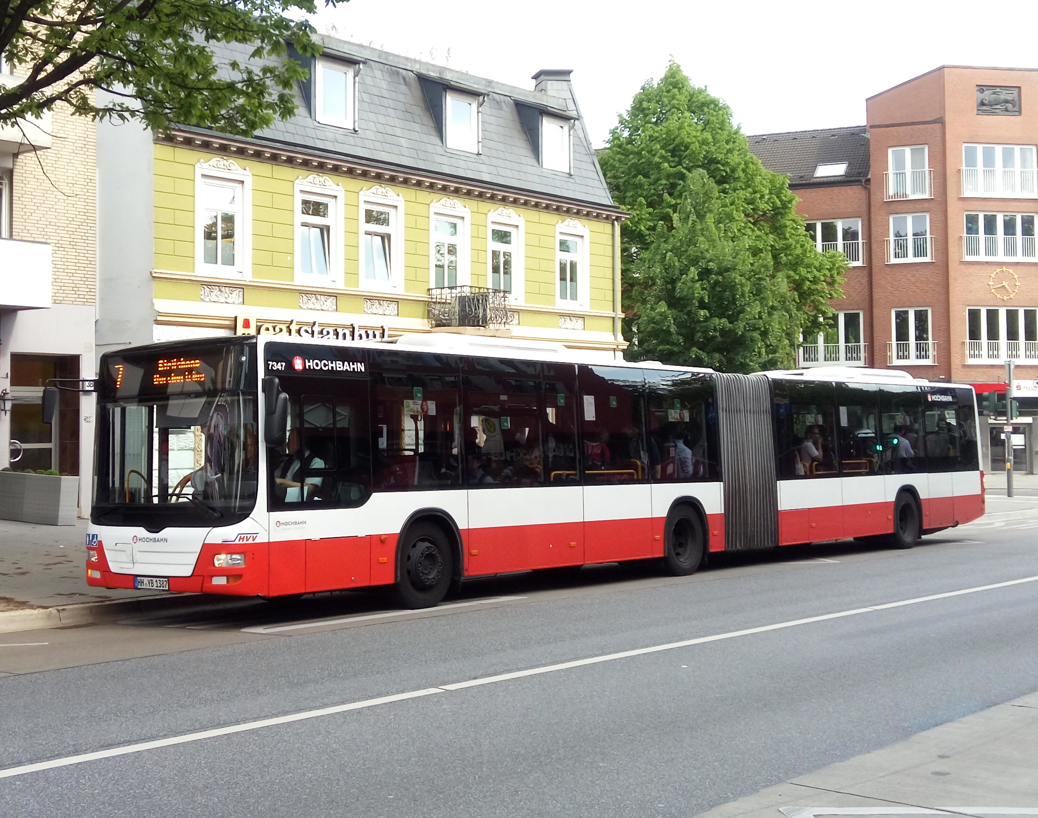 The bus line 7 at the bus stop Hartzloh in Hamburg, Germany.